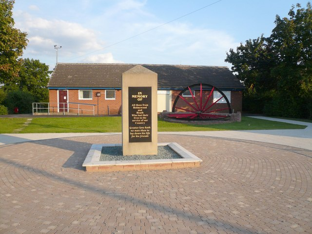 Holmewood War Memorial